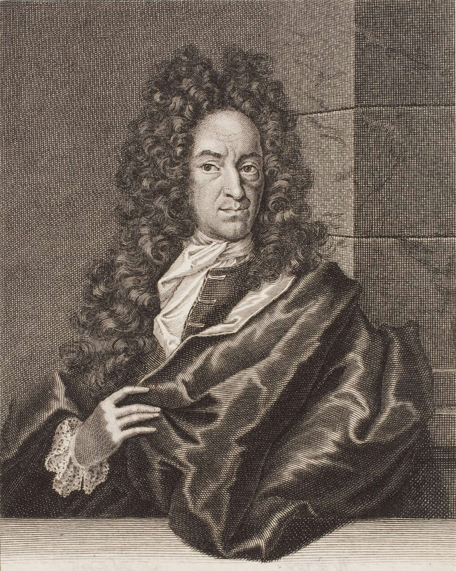 Georg Ernst Stahl (1660–1734), German chemist, physician and metallurgist